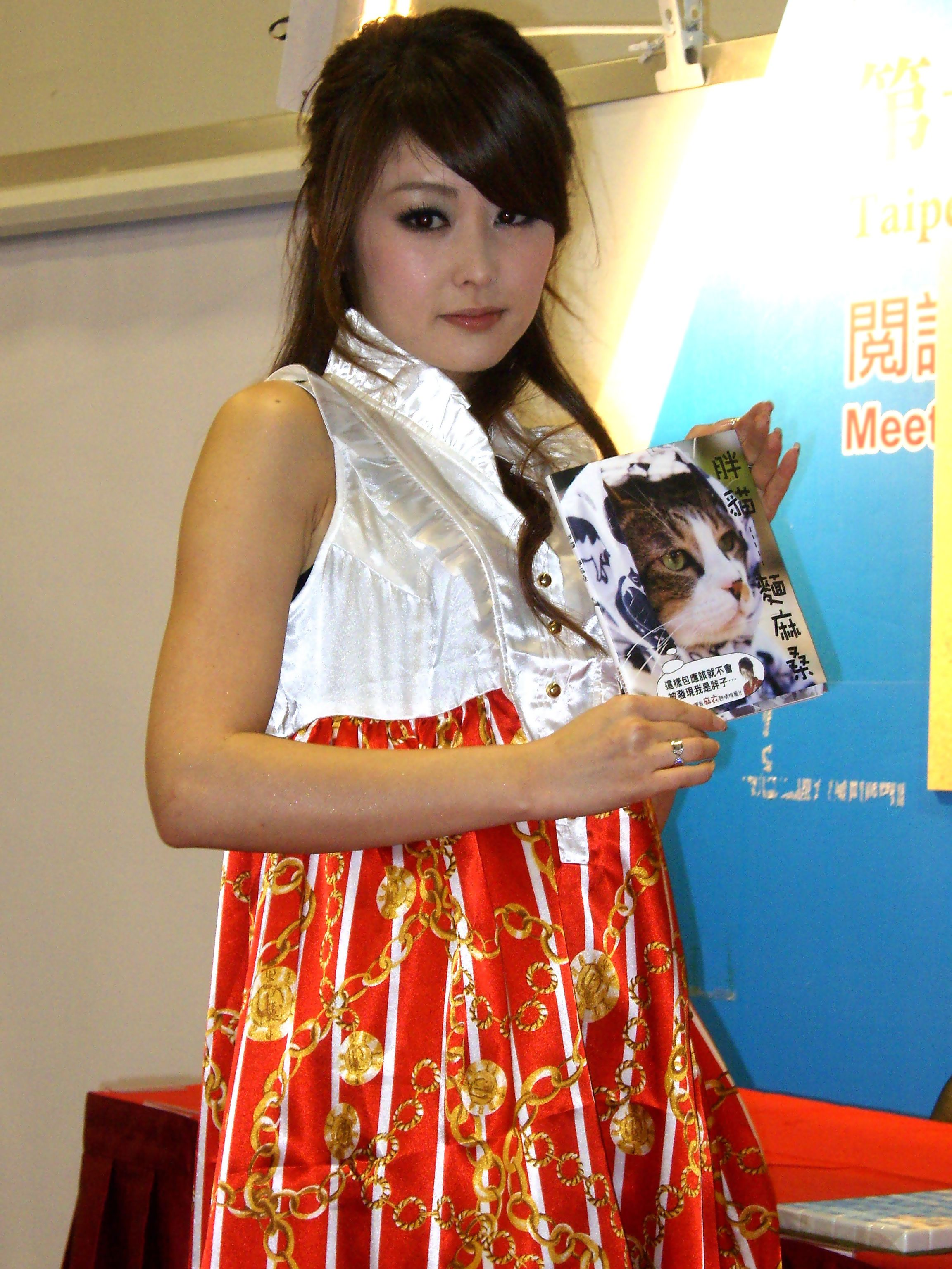 2008 Taipei International Book Exhibition - Hall 1 Activity Center 2: Mai Satō.